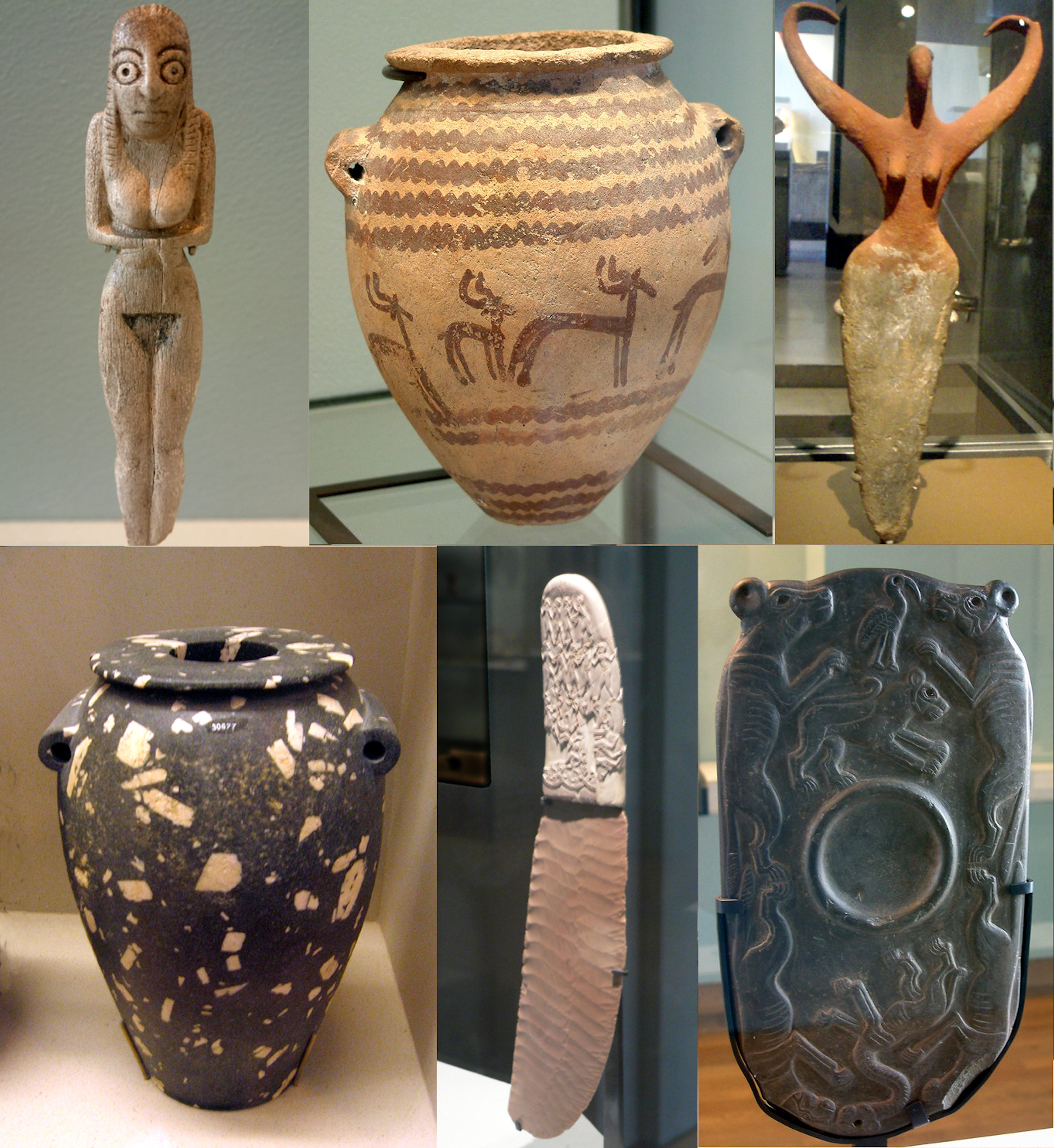 Predynastic collage (new version)